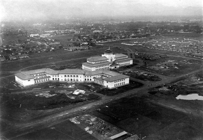 Air photo of the Department of Government Buildings, also known as Gedung Sate, in Bandung, Indonesia